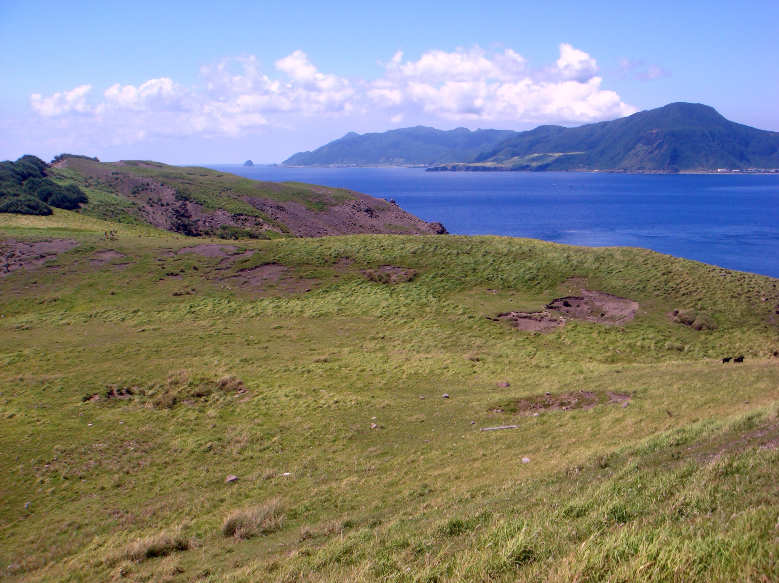 小蘭嶼 or Xiaolan Yu or Florana Island, satellite island of 蘭嶼 or Lán Yǔ Orchid Island (or in Yami language: Ji-teywan)